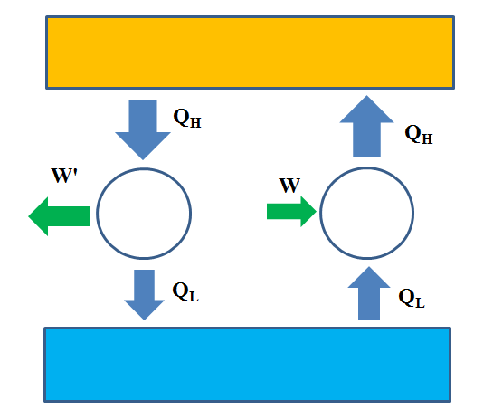 Proof_of_Carnot's_theorem1